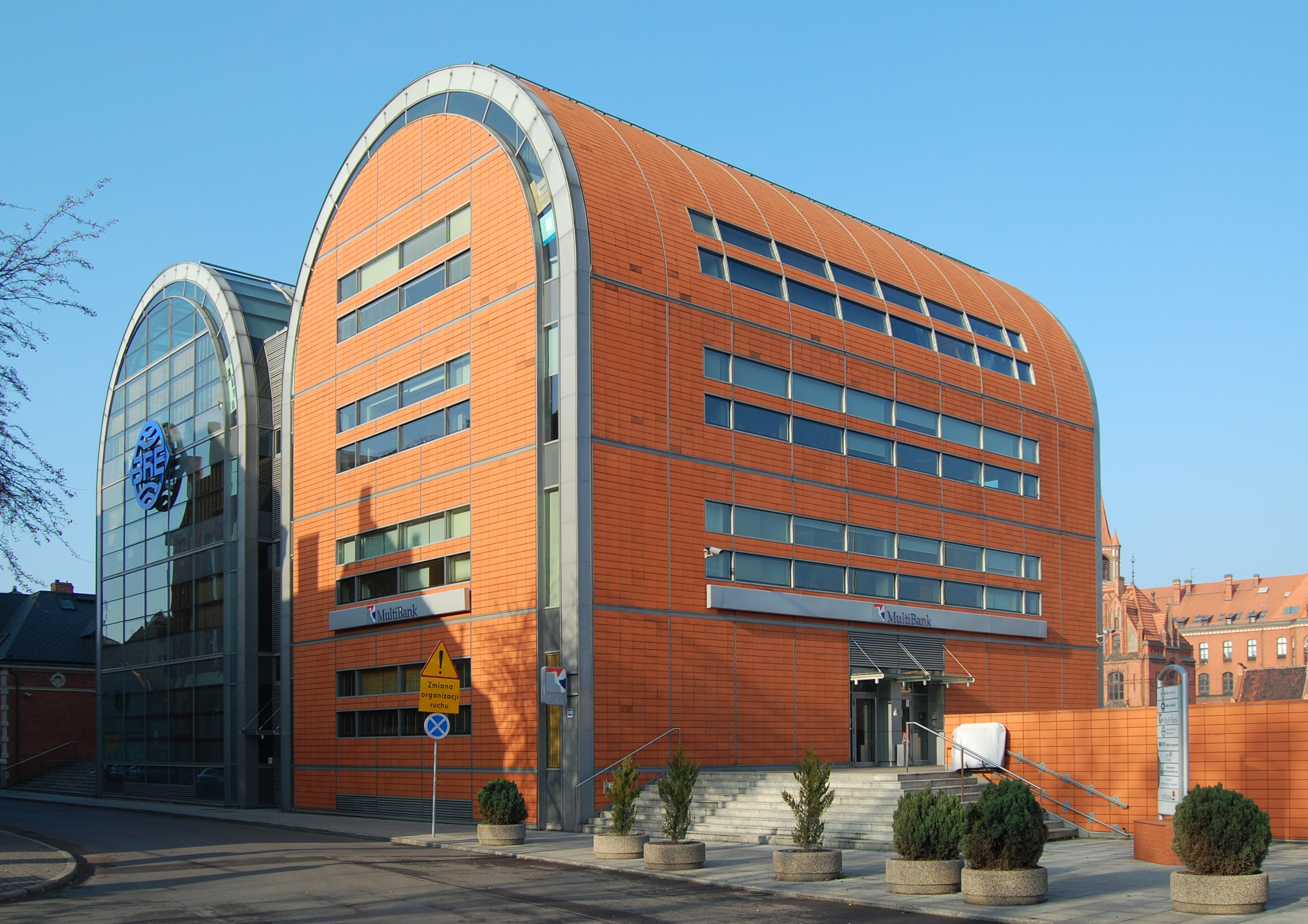 Banks buildings over Brda river, Bydgoszcz, Poland.